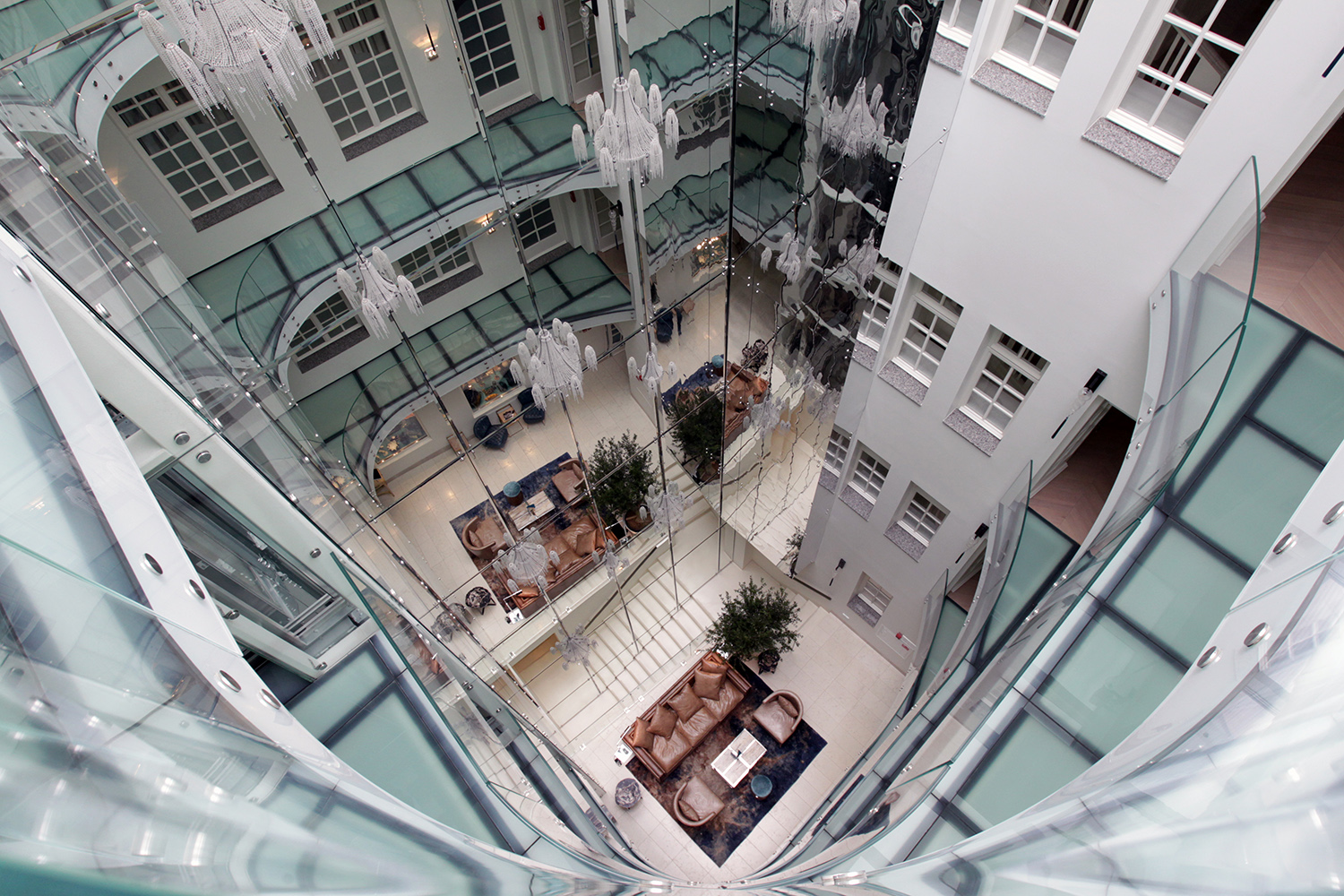 The lobby of Le Chevalier hotel